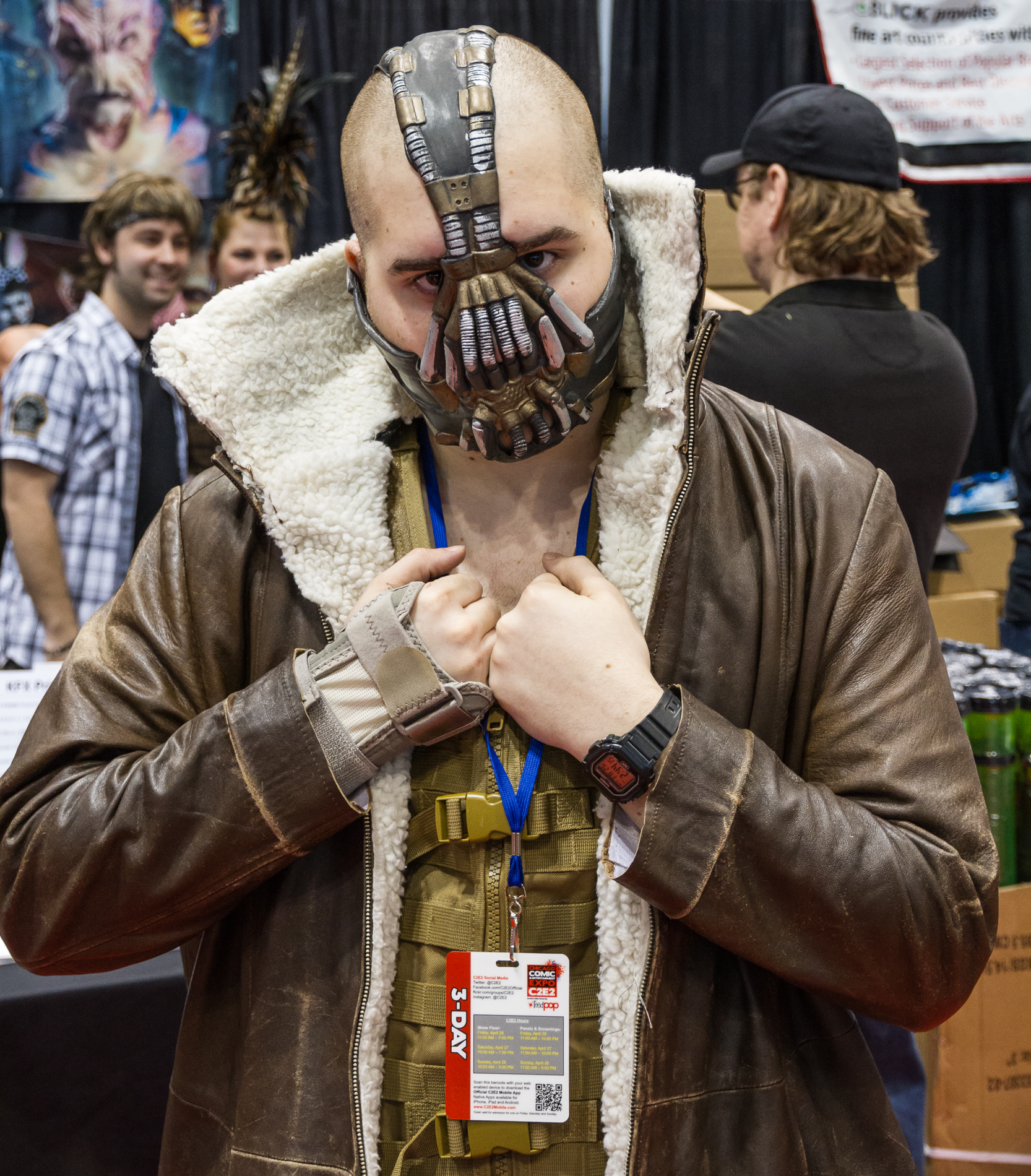 Bane, a fictional character from the comic universe of Marvel Comics